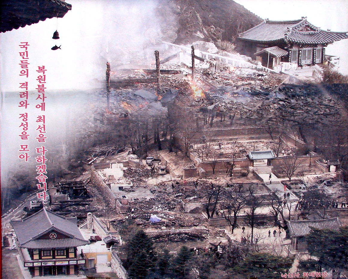 Naksansa fire picture posted on a signboard in front of one of the temple's halls